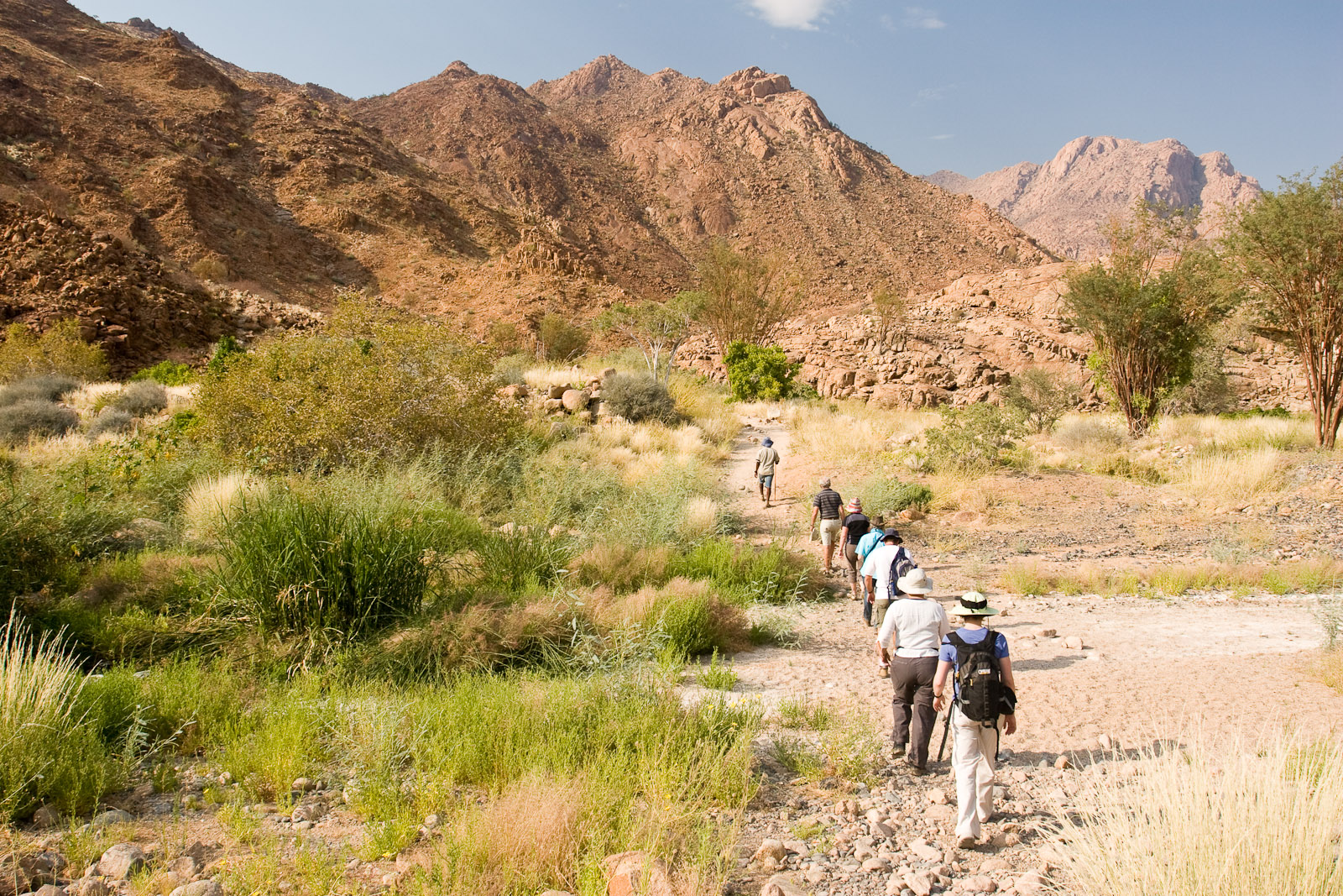 Hiking to the White Lady